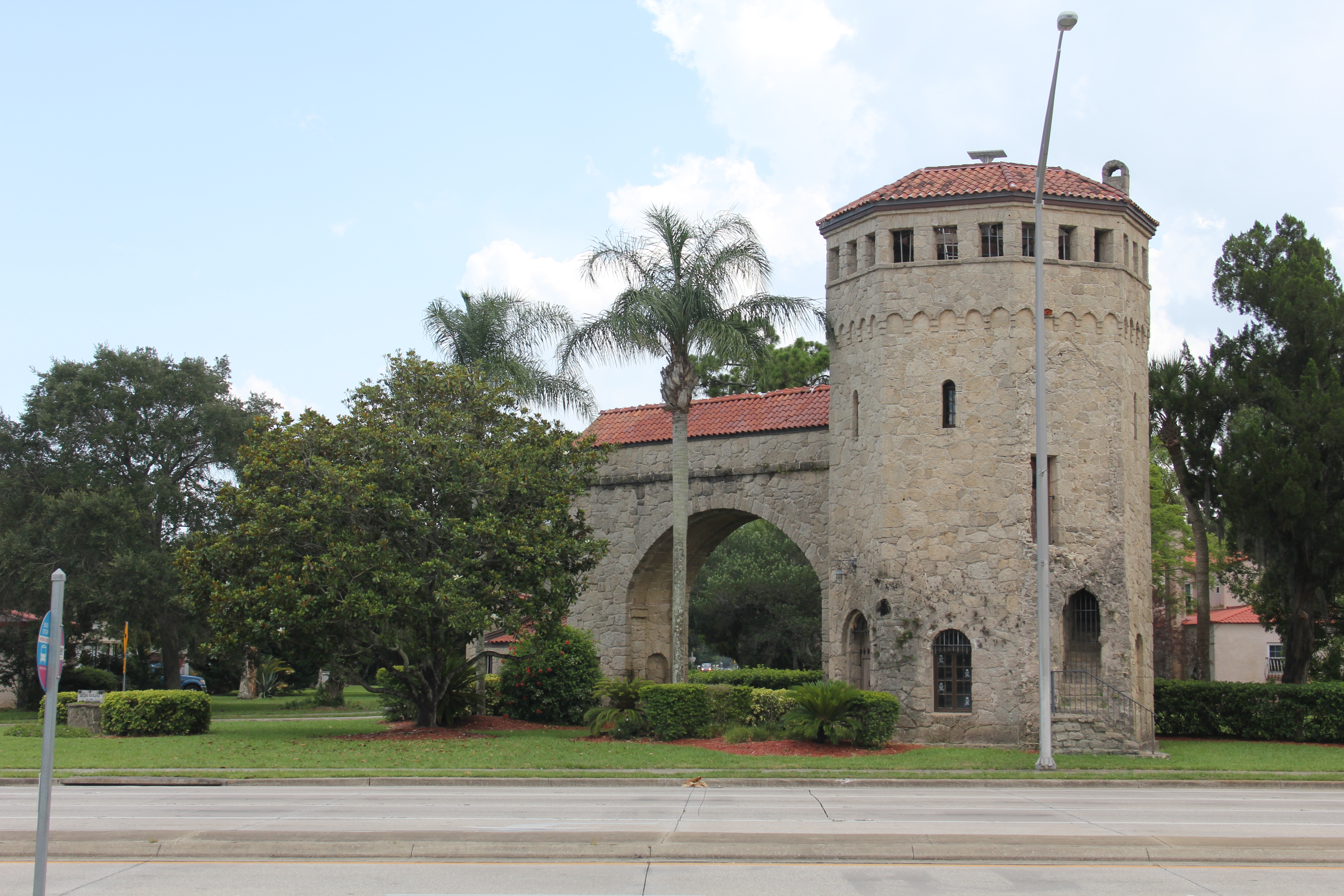 Randy Jaye, personal photograph